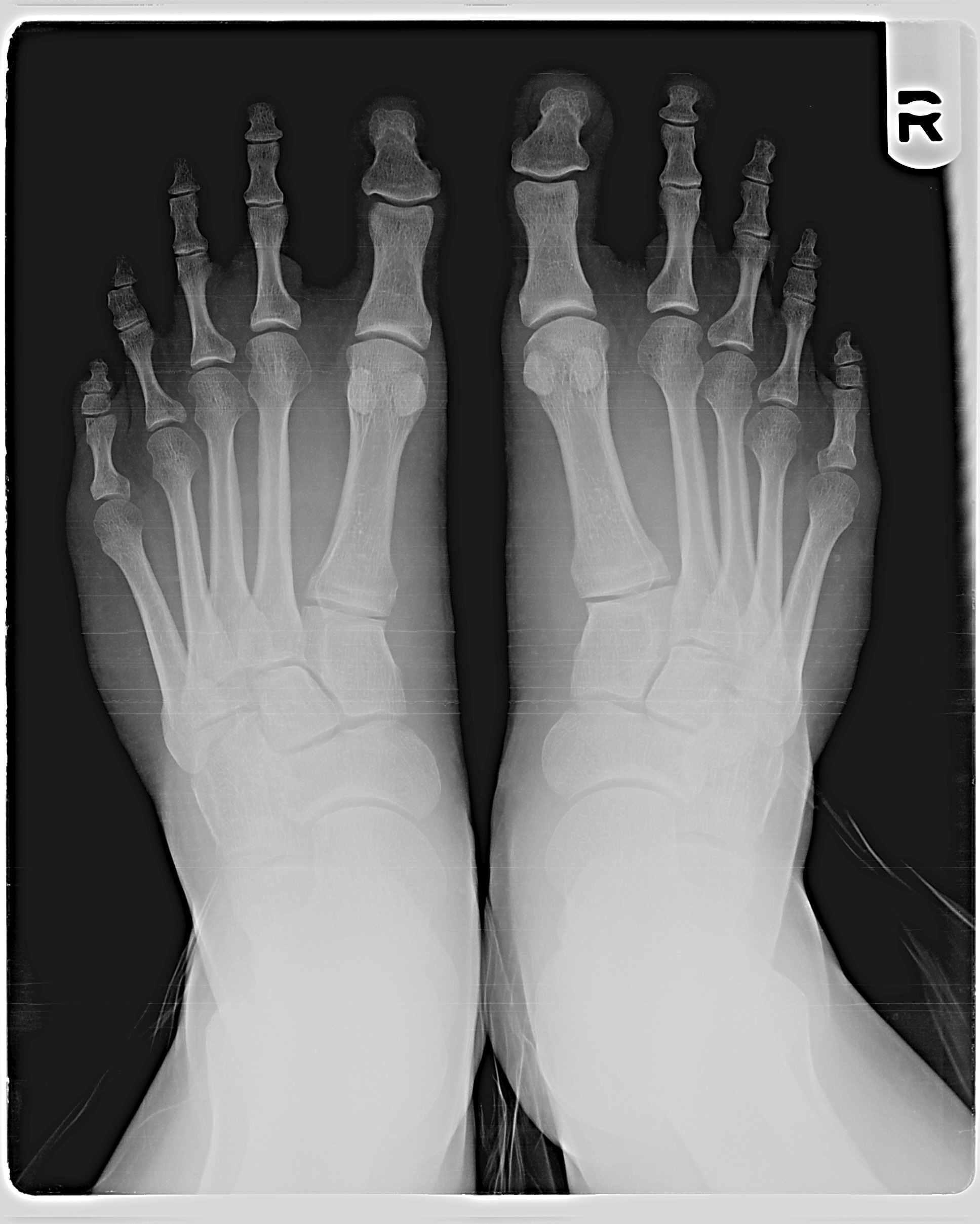 This is a digital x-ray photograph of Cjottawa's feet, which exhibit the condition "Morton's Toe." It will be used on the Wikipedia page